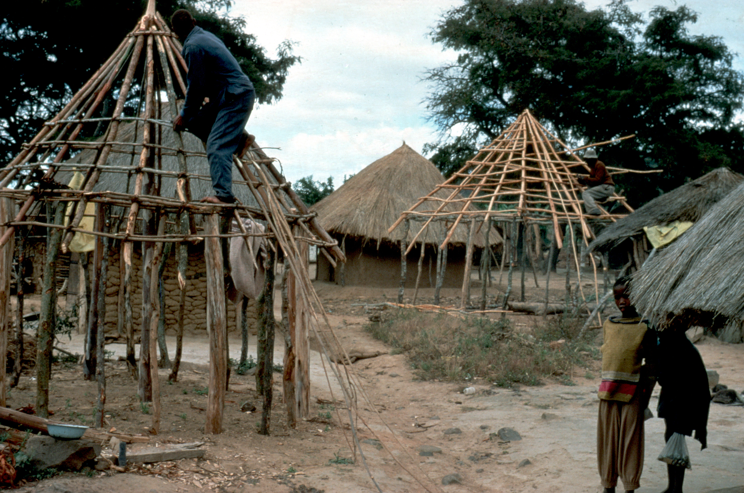 Constructing traditional houses using locally grown eucalypt poles in Zimbabwe.